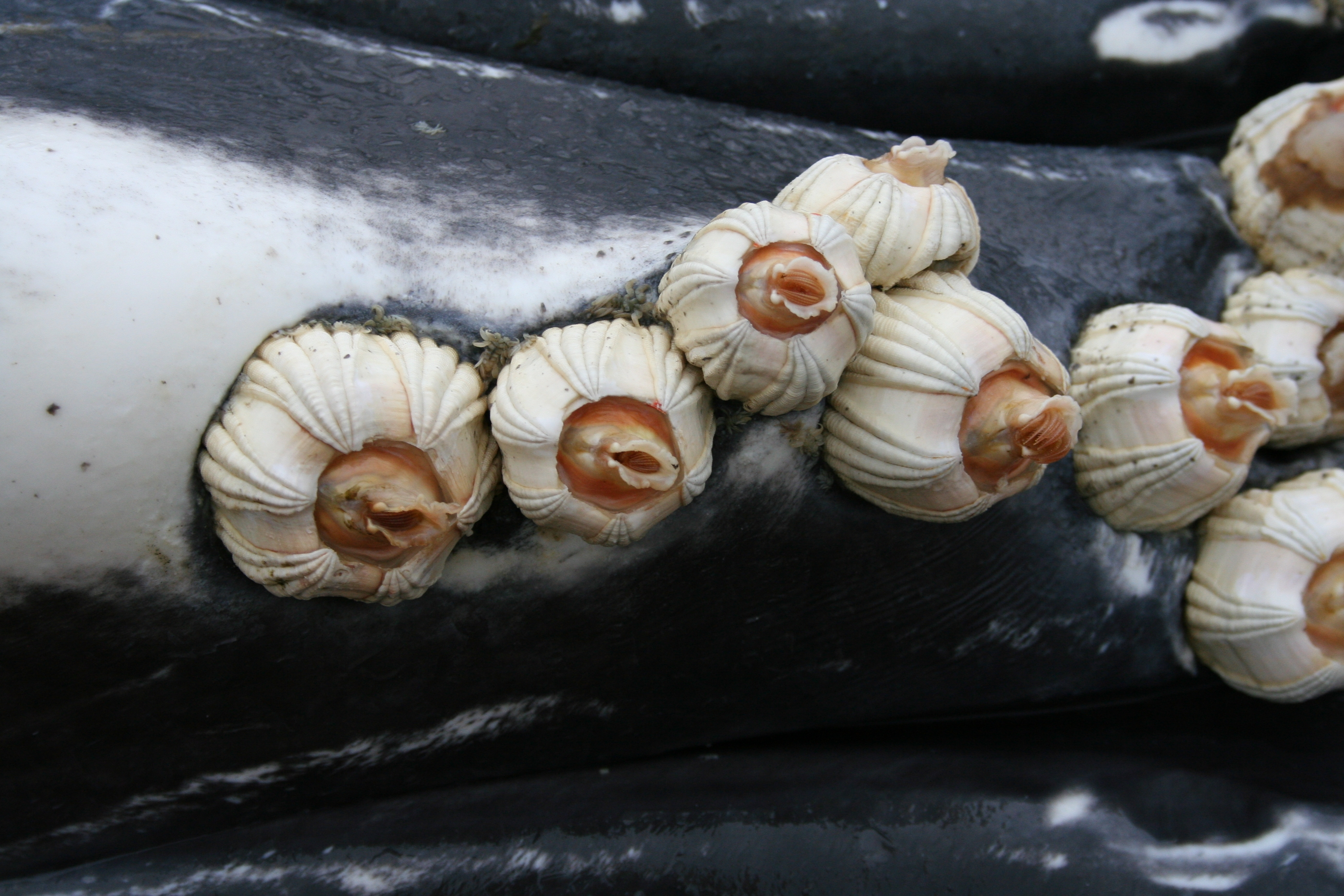 Barnacles attached to the ventral pleats of a humpback whale calf (photo taken during necropsy). Alaska, Peril Strait, Baranof Island. 2005 October 18.